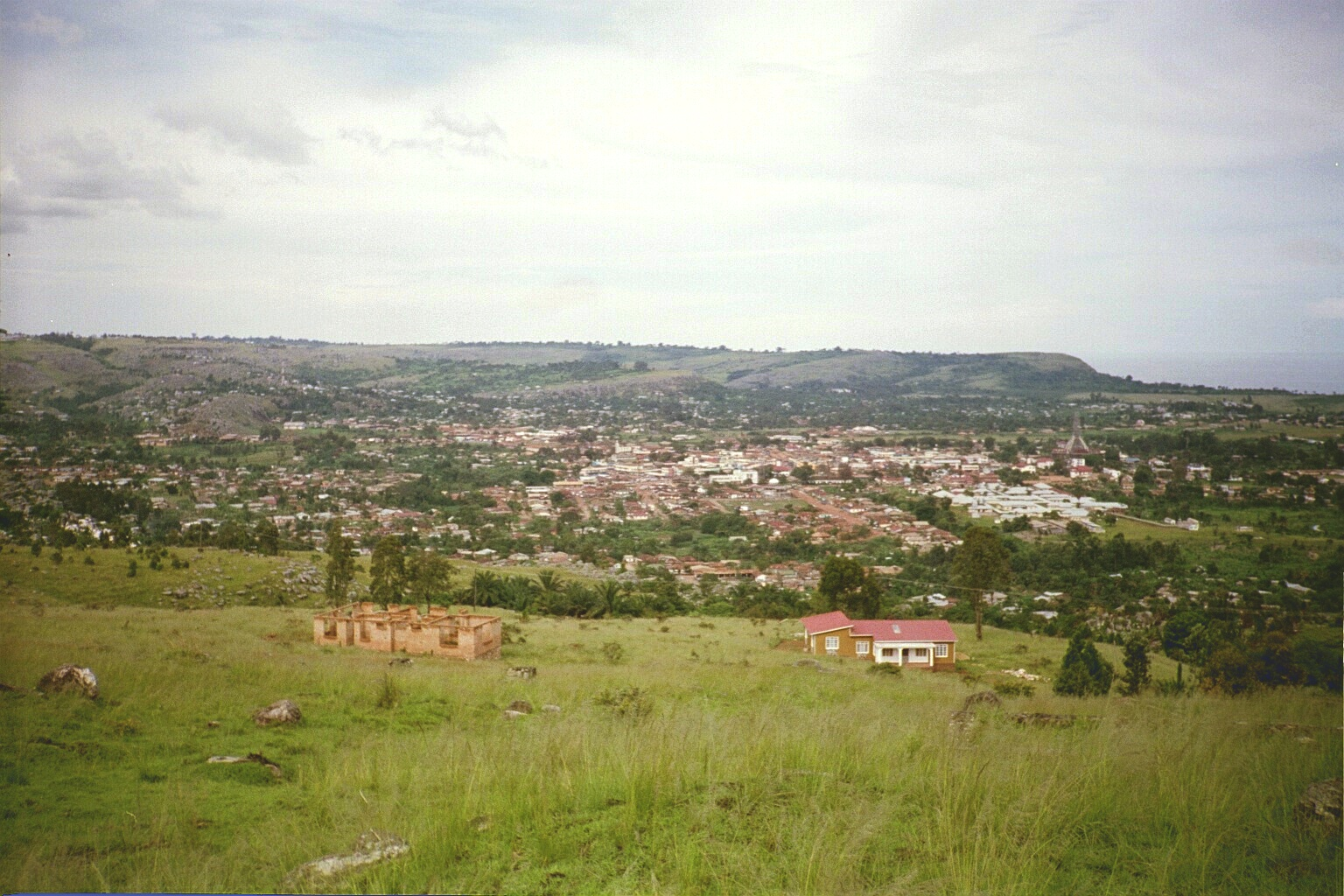 View of Bukoba